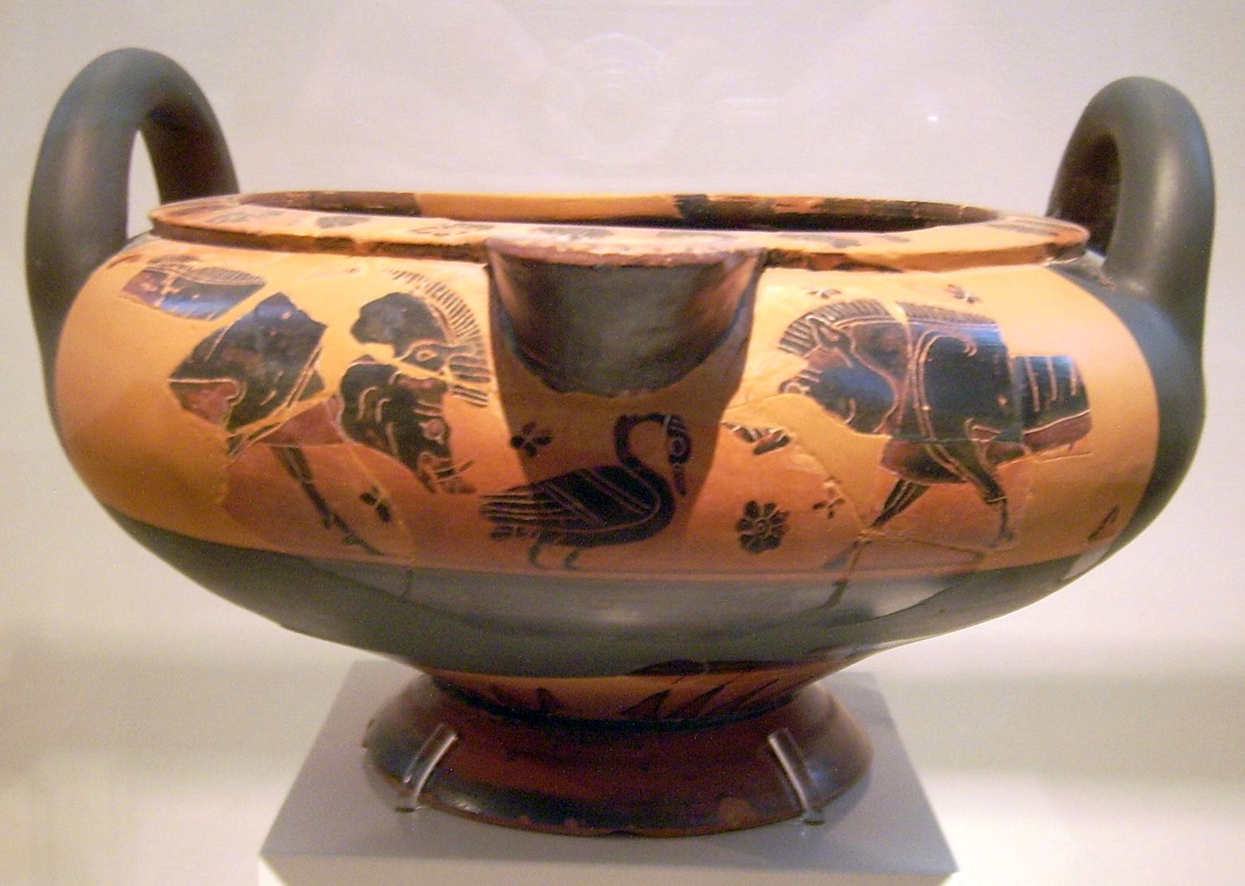 Attic black-figure Louterion in the Manner of Sophilos; Water birds, boars and lions; about 600/575 BC.; National Archeological Museum Athens (16385)